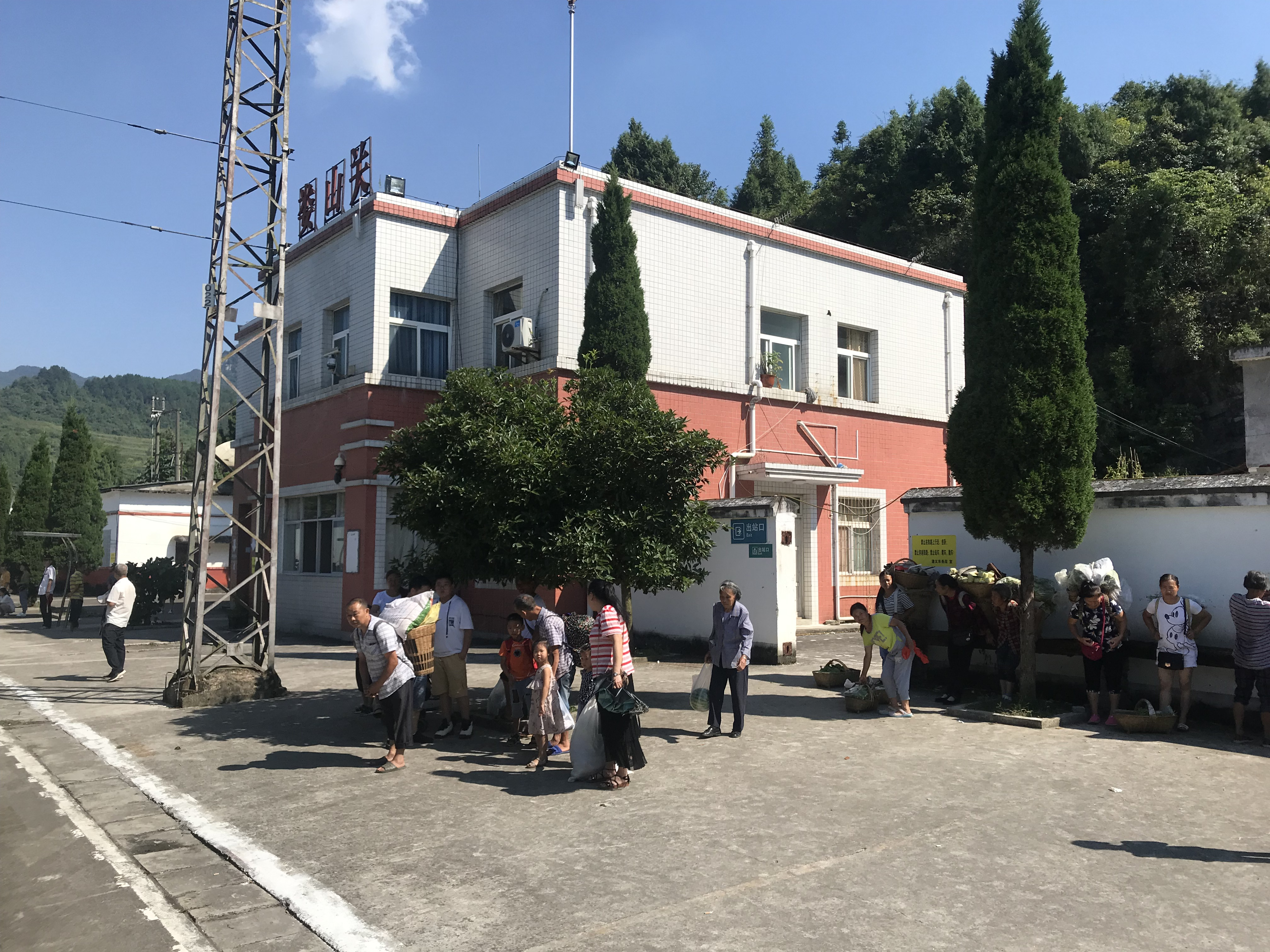 Finally Made it